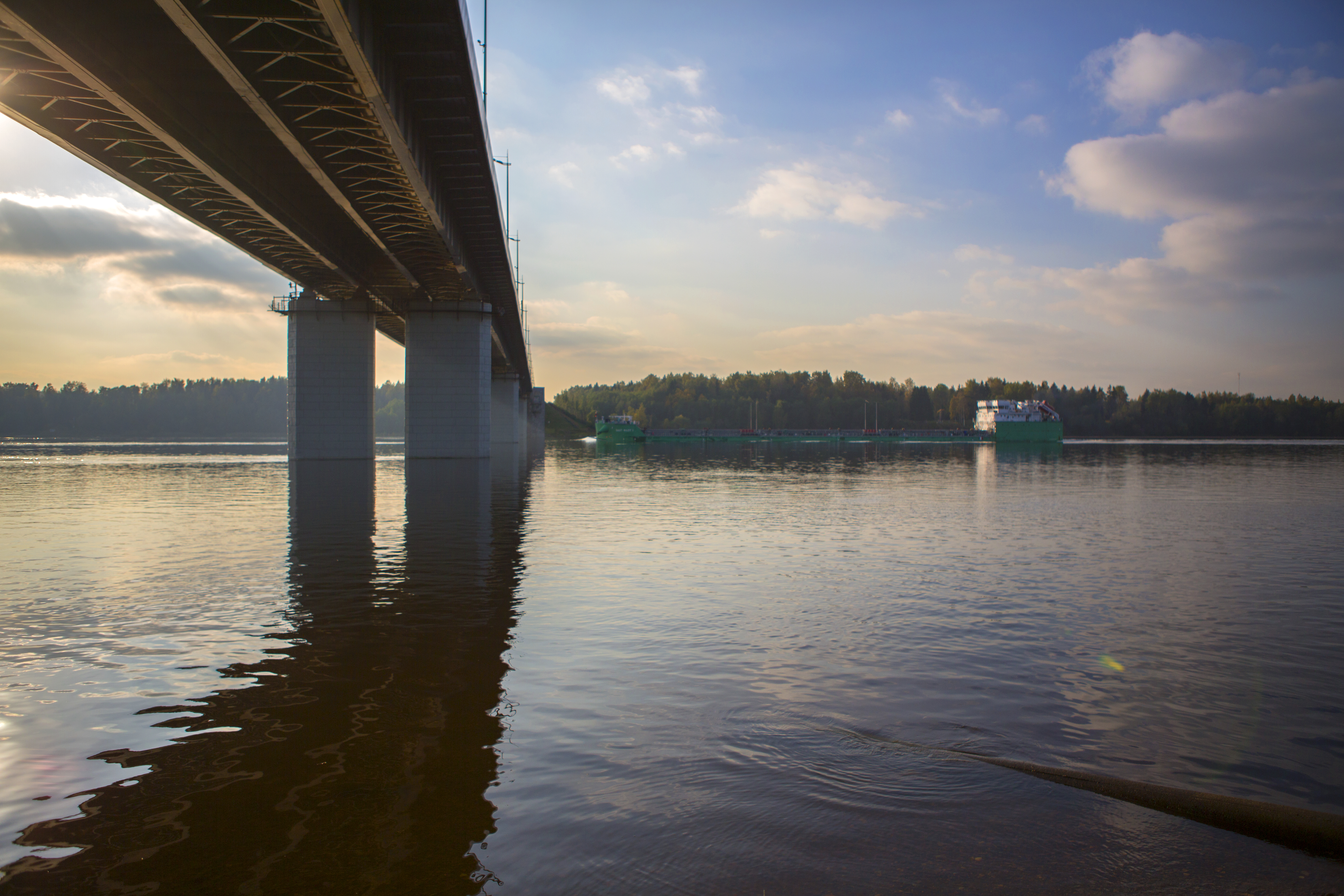 Leningrad Oblast